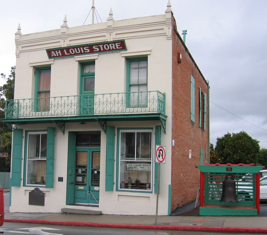 Image was found here: and is attributed with a Creative Commons Attributions-Share Alike 2.0 license. Image was uploaded to Flickr by peterme.